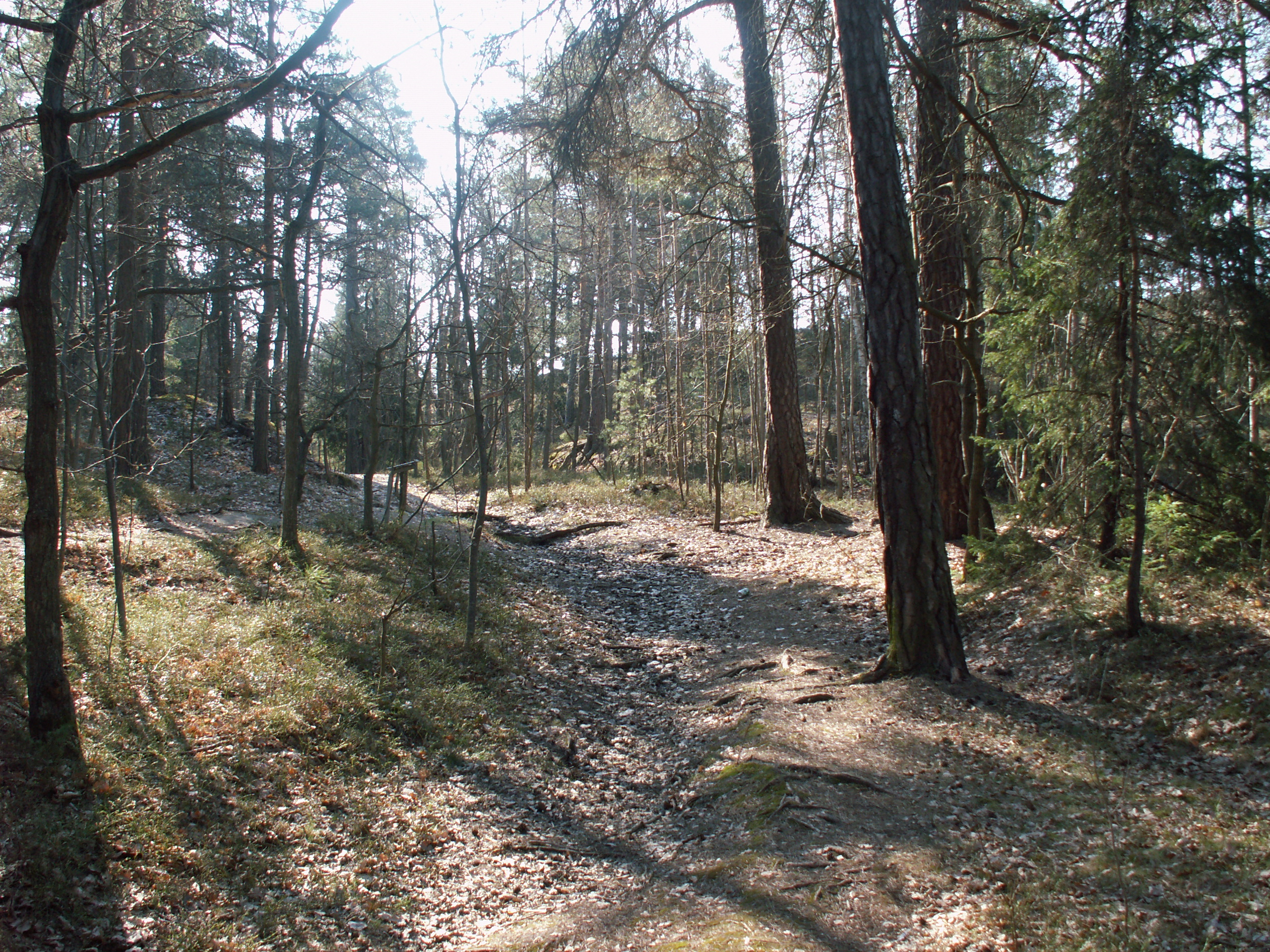 The Solbergaskogen forest, Stockholm